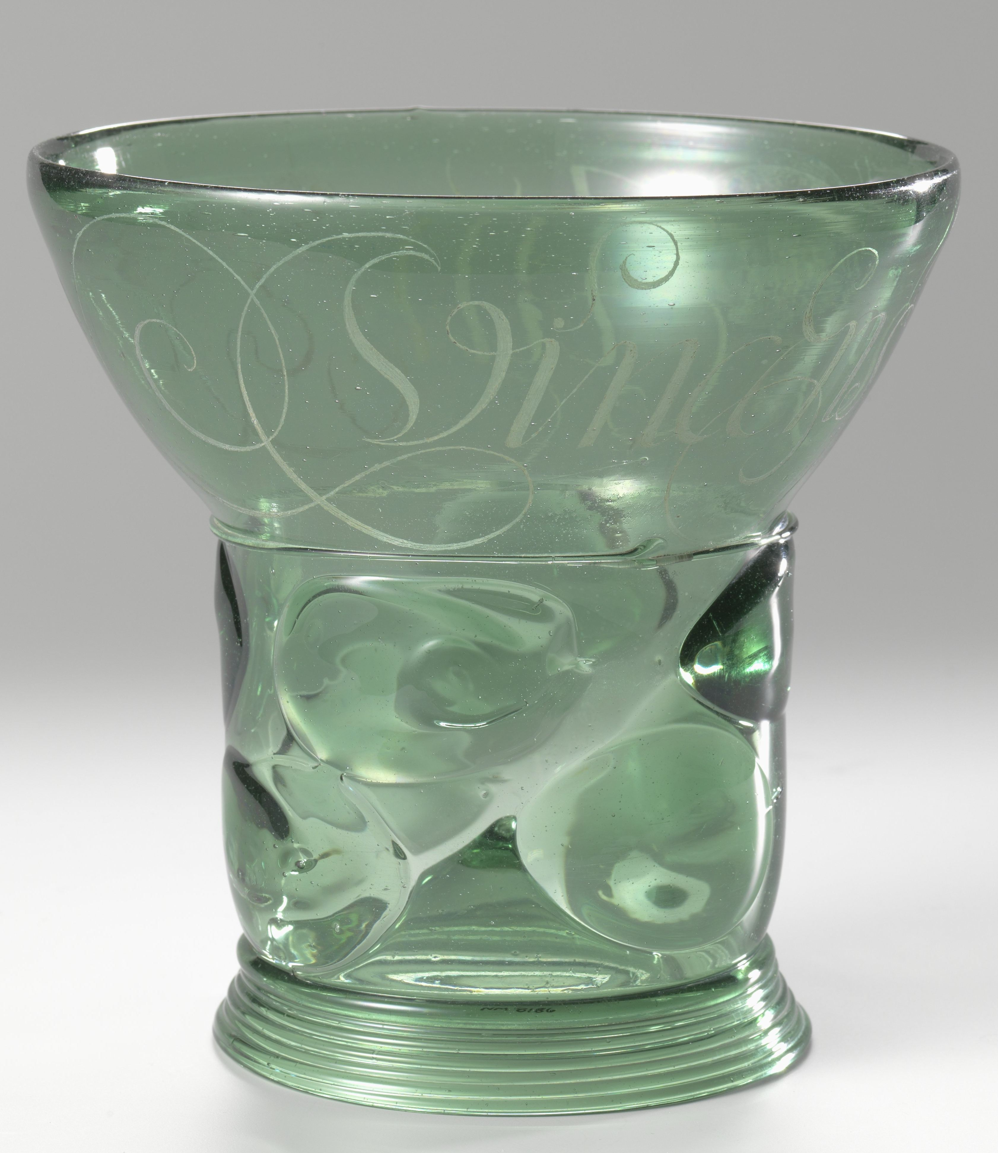 Engraved on the bowl of this glass are the words ‘Vincens tui’ (Conquer thyself). Anna Roemers Visscher derived the butterfly and fly motifs from a late 16th-century print by Nicolaes de Bruyn. (Text copied from source.)